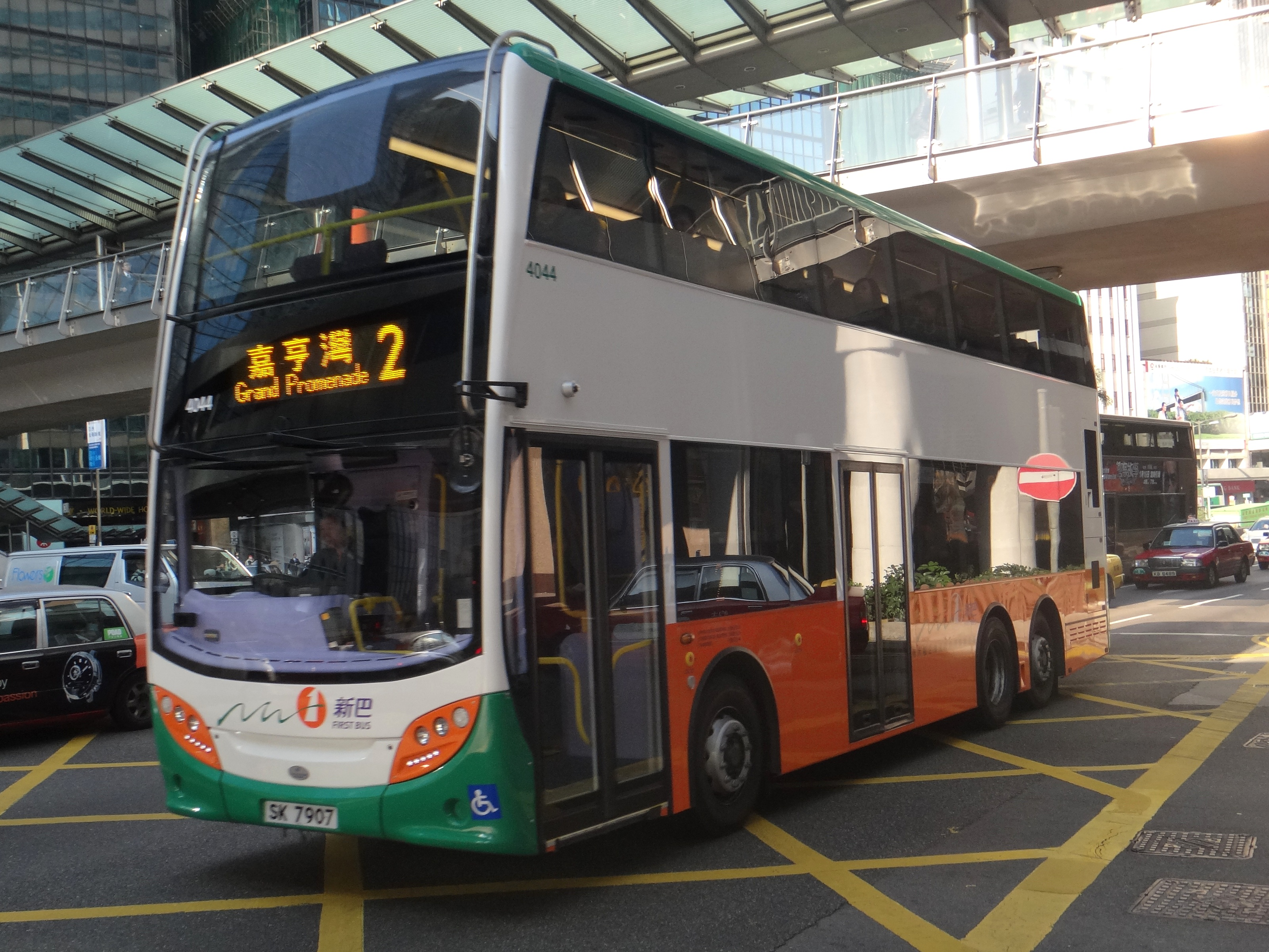 An Alexander-Dennis Enviro500 MMC operated by New World First Bus in Hong Kong.